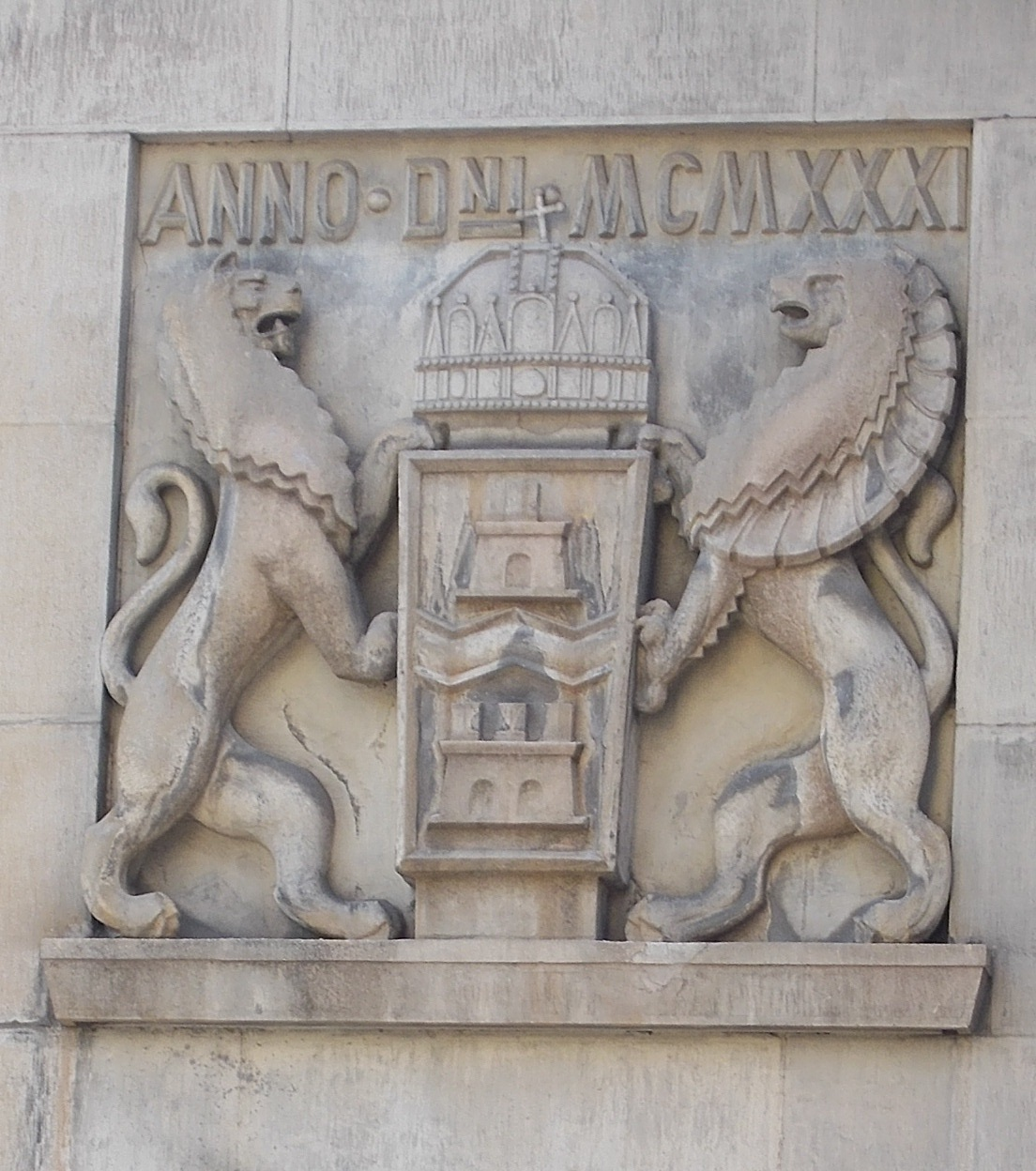 Budapest Capital Electric Works building complex built in 1930 and 1931 A seven floor residential (by Dénes Györgyi Dénes) and a five floor electrical distribution transformer building (by Ernő Román) this last one remodelled to bank building in 1988. - 22 Honvéd street,, Lipótváros neighbourhood, District V, Budapest.